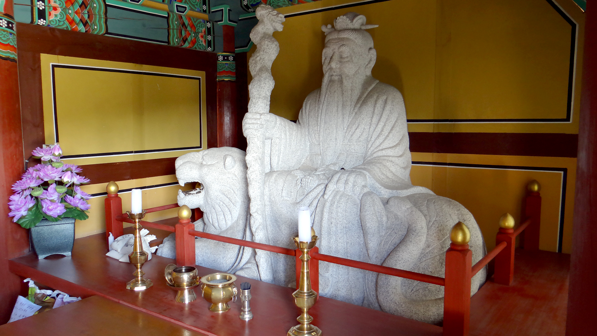 Sansingak (shrine) at Gaeamsa, a small, quiet Korean Buddhist temple in Buan County, North Jeolla Province, South Korea built in 634 C.E. during the Baekje Dynasty and expanded in 1313. The temple was burned down during the Imjinwaeran Japanese Invasion and reconstructed in 1658.